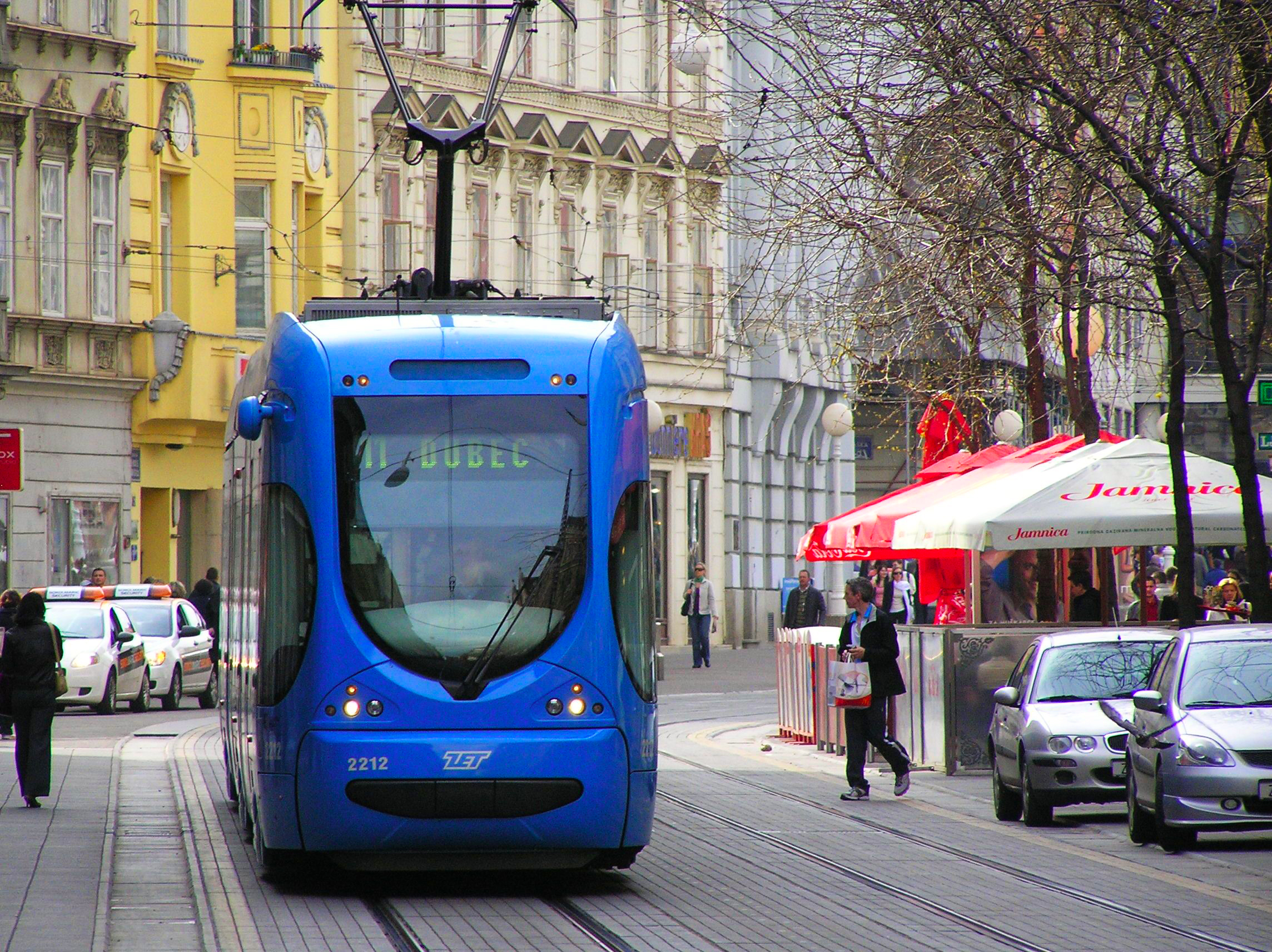 Crotram TMK 2200 tram (#2212) in Zagreb, Croatia. Built 2006.